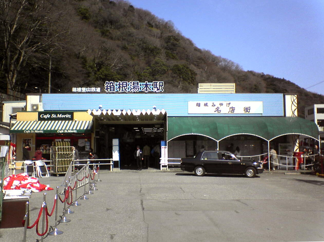 Hakone Yumoto Station Front Side,Hakone Tozan Railway,Kanagawa,Japan.